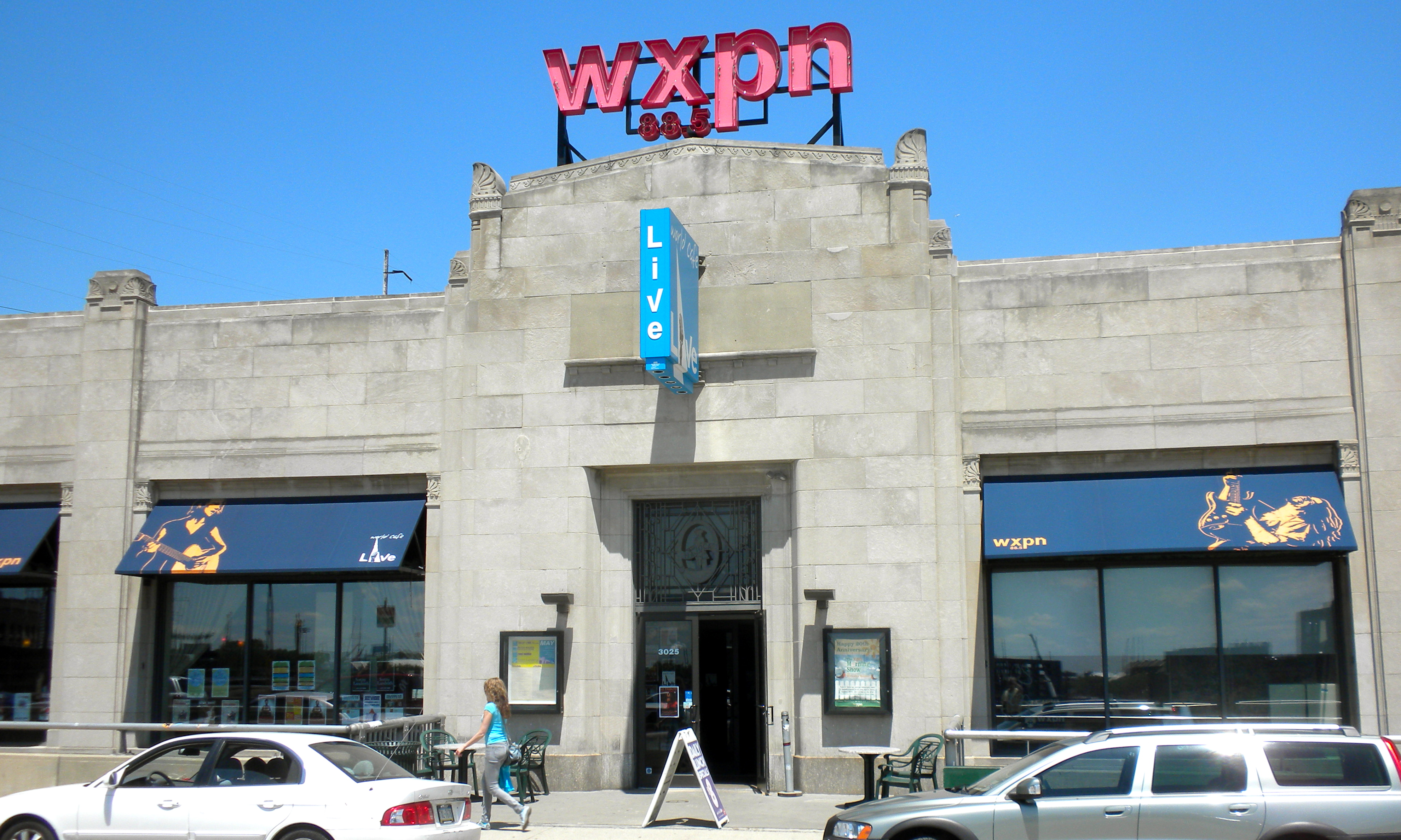 Hajoca Corporation Headquarters and Showroom on the NRHP since February 27, 2003. At 3025 Walnut Street (just west of Schuylkill River) in University City neighborhood of Philadelphia. Hosts World Cafe